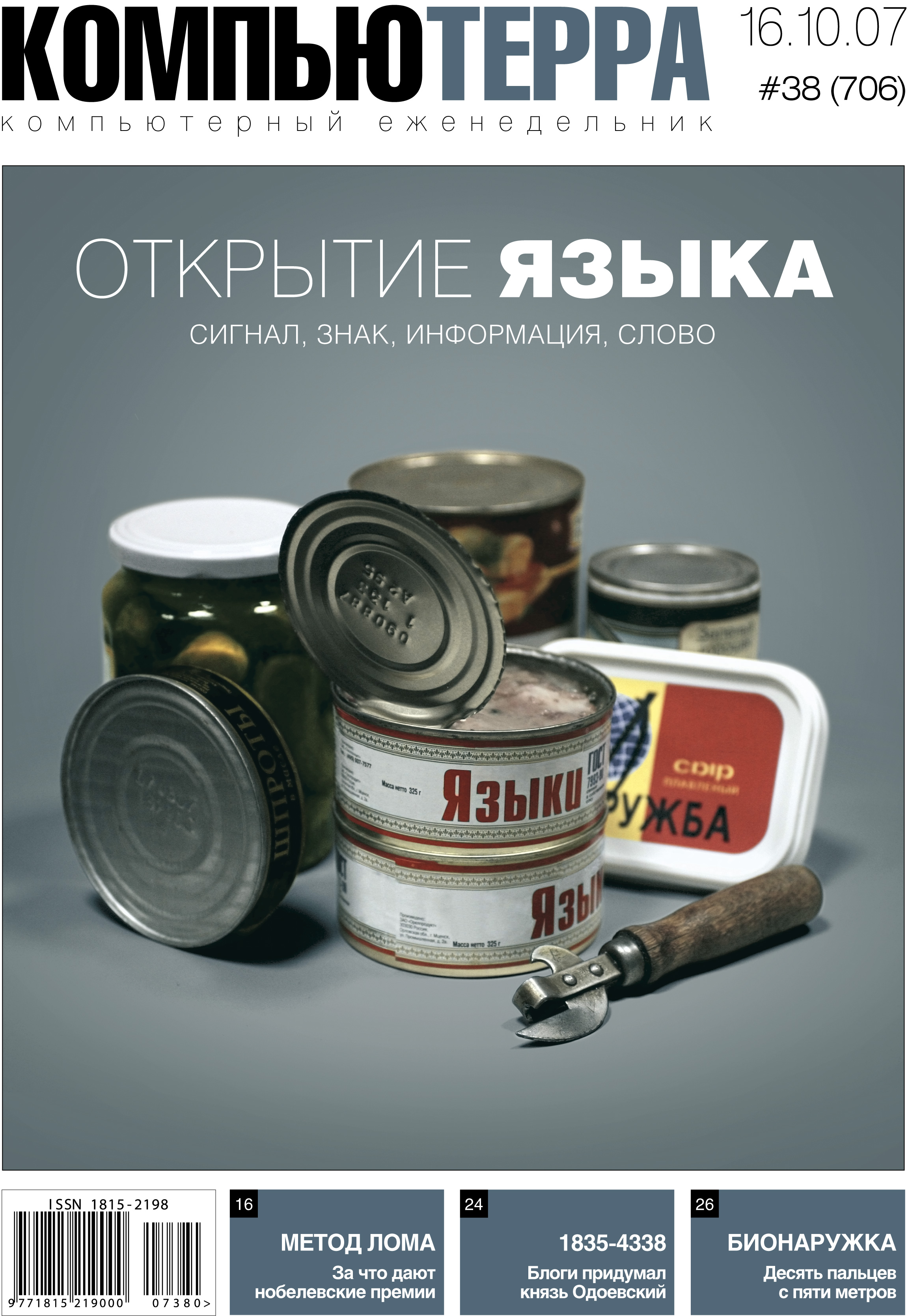 Cover image of Computerra weekly #706